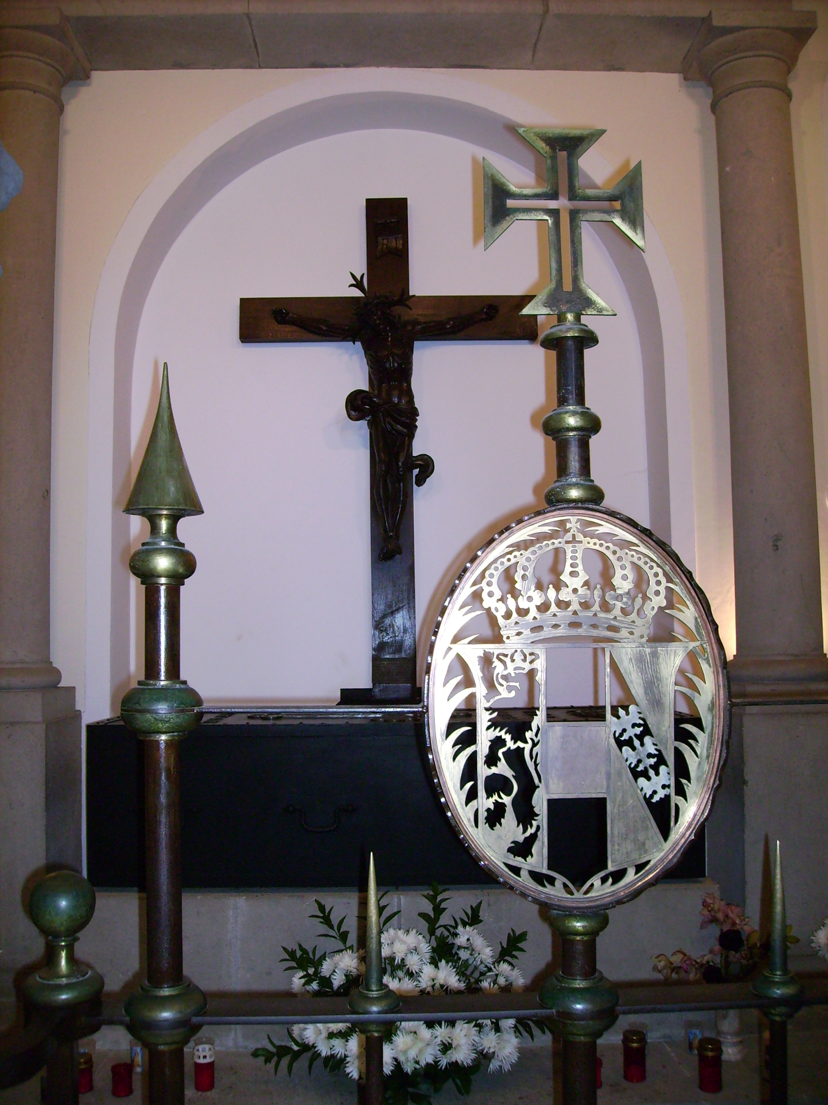 tomb of Charles I. Imperor of Austria-Hungary, Monte, Madeira